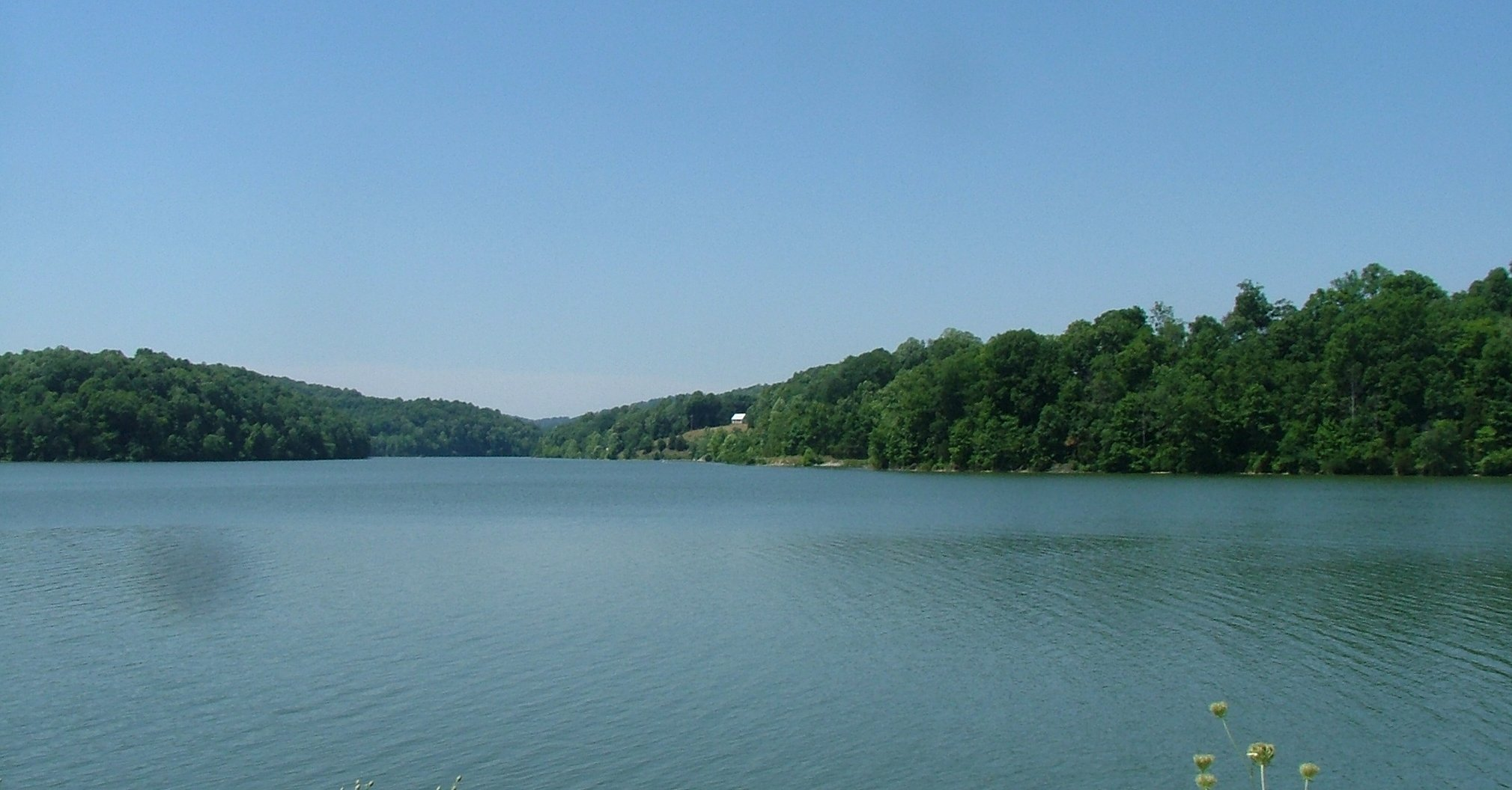 Lake Linville in Southern Kentucky looking west across the lake